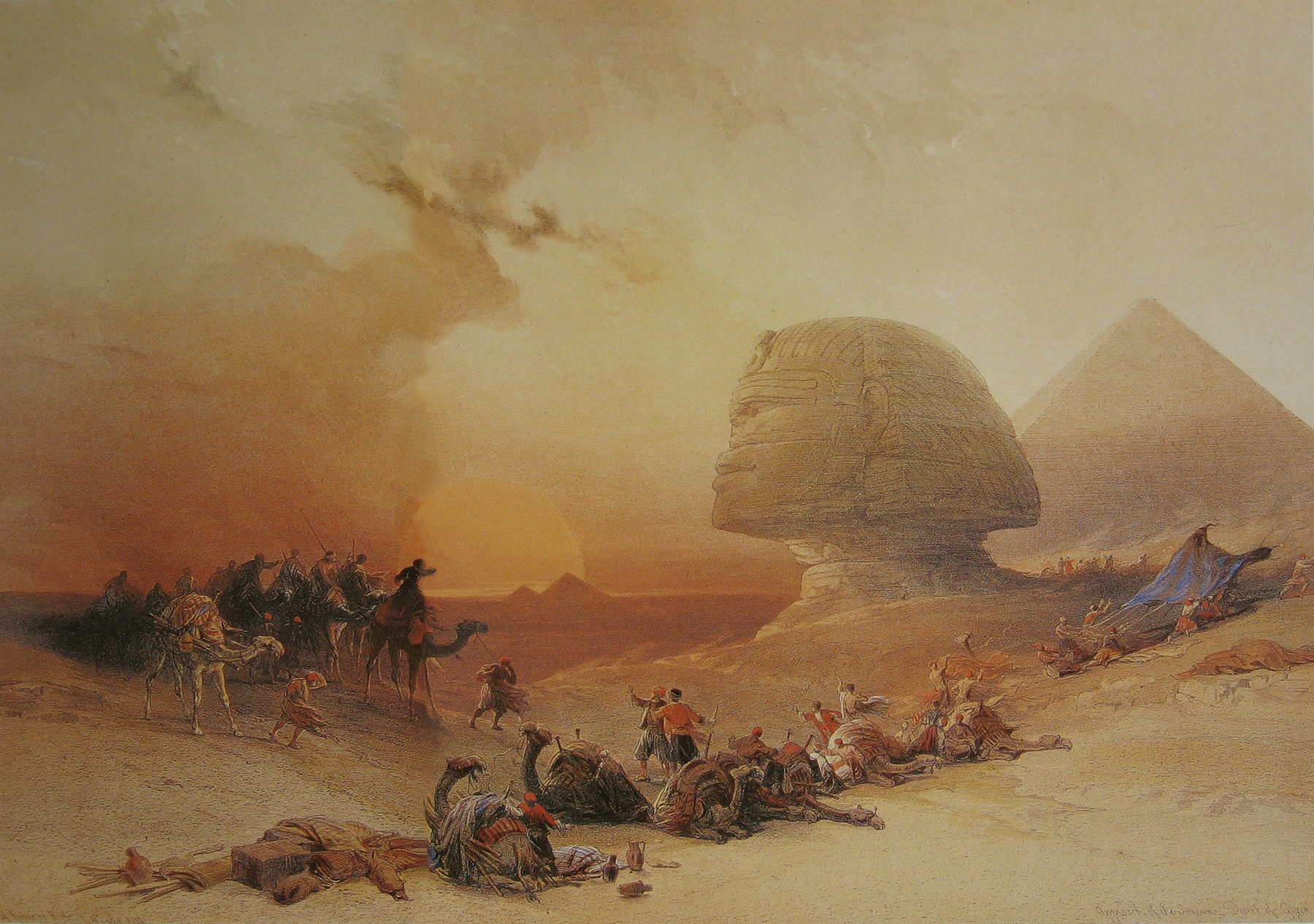 The simoon in the desert